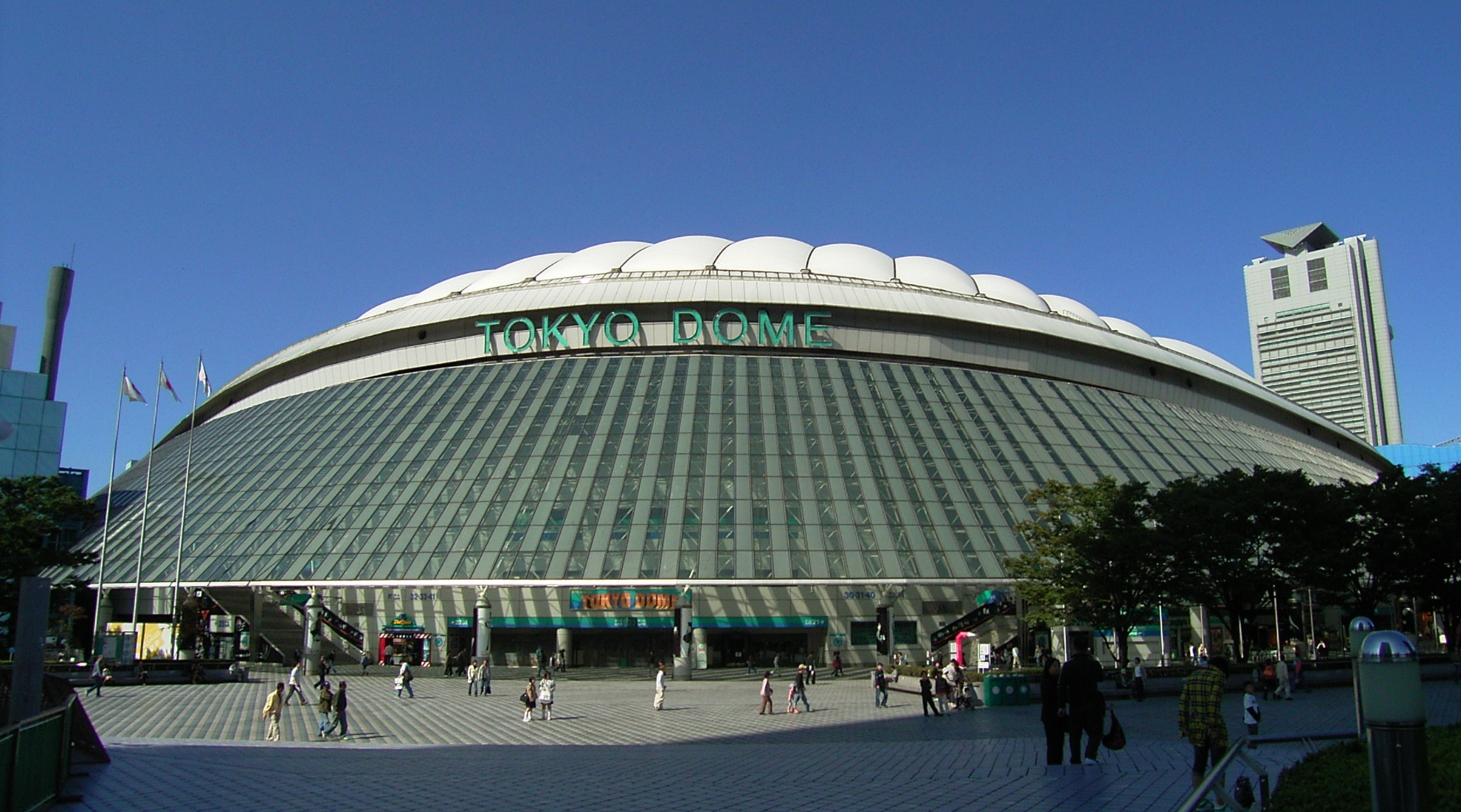 “Tokyo Dome” Baseball field